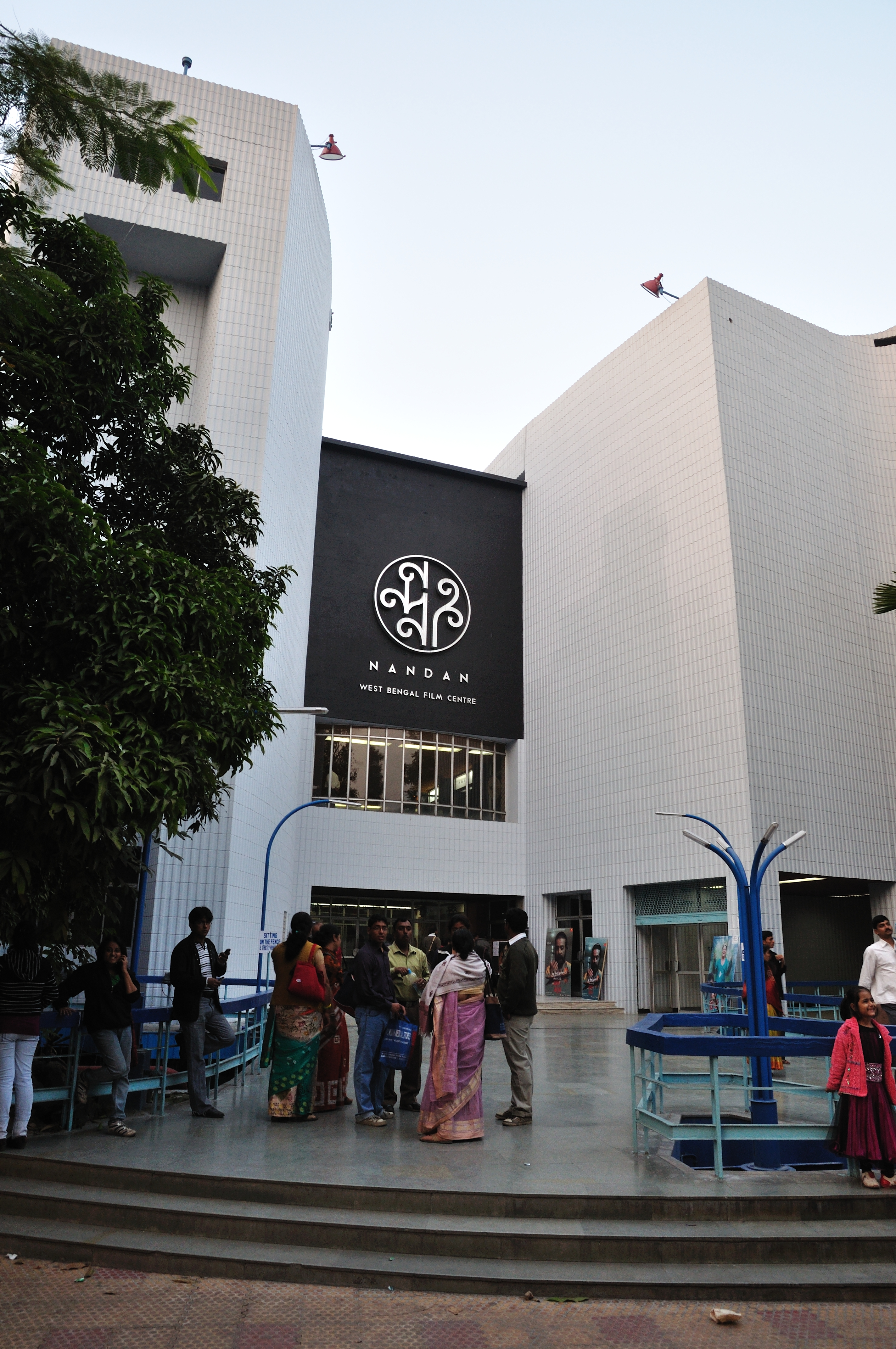 Nandan is a government sponsored centre in Calcutta, India for facilitating film awareness and includes a few comparatively large screens housed in an impressively architectured building. It shares its site with the Rabindra Sadan cultural centre.The complex, besides being a modern cinema and cultural complex, is a popular hang-out for the young and the aged. Nandan was inaugurated by Satyajit Ray in 1985.